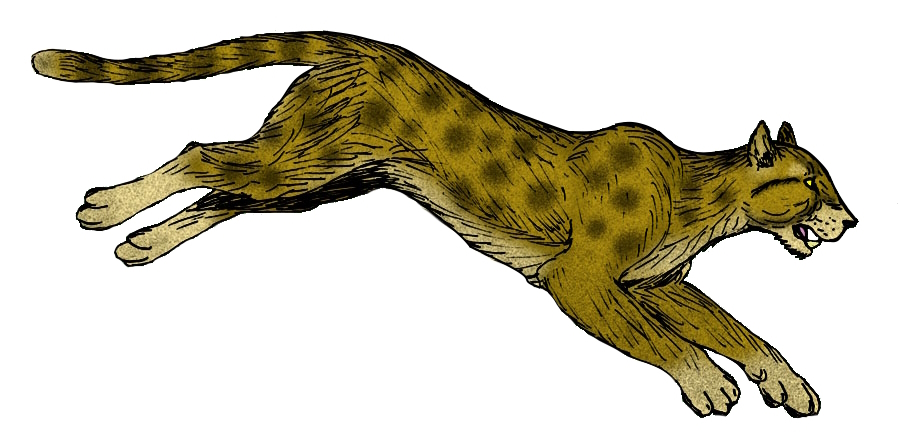 The American cheetah, Miracinonyx inexpectatus. Apparently, it was once thought to be a true cheetah, but, now is thought to be a cheetah-like cougar, having become cheetah-like through parallel evolution. (C) Stanton F. Fink